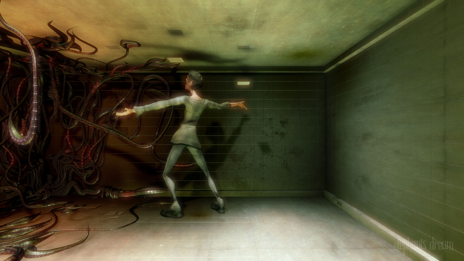 Image from the film Elephants Dream.